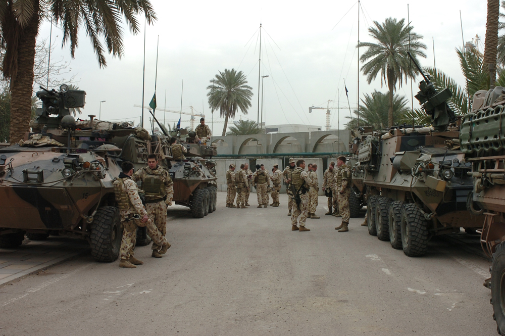 A group of Australian Soldiers get ready to go out on mission from Forward Operating Base Union III March 1. The "Diggers" escort the Australian ambassador and diplomats while they travel in the International Zone and the streets of Baghdad.